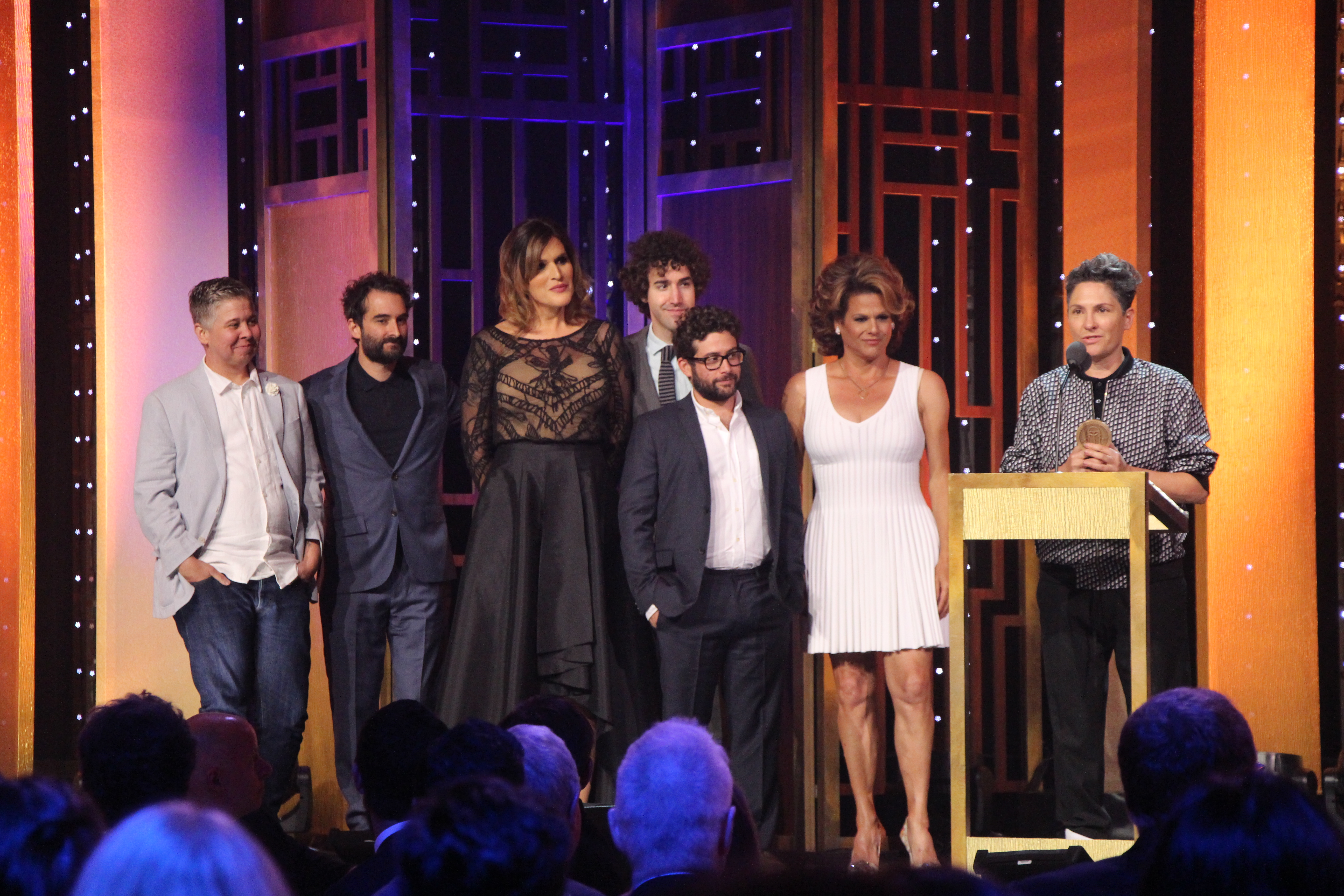 This photo includes the cast and crew of "Transparent," including Jay Duplass, Our Lady J, Ethan Kuperberg, Joe Lewis, Alexandra Billings, Ali Liebegott and Jill Soloway. (Photo/Sarah E. Freeman/Grady College, in New York City, Georgia, on Saturday, May 21, 2016)